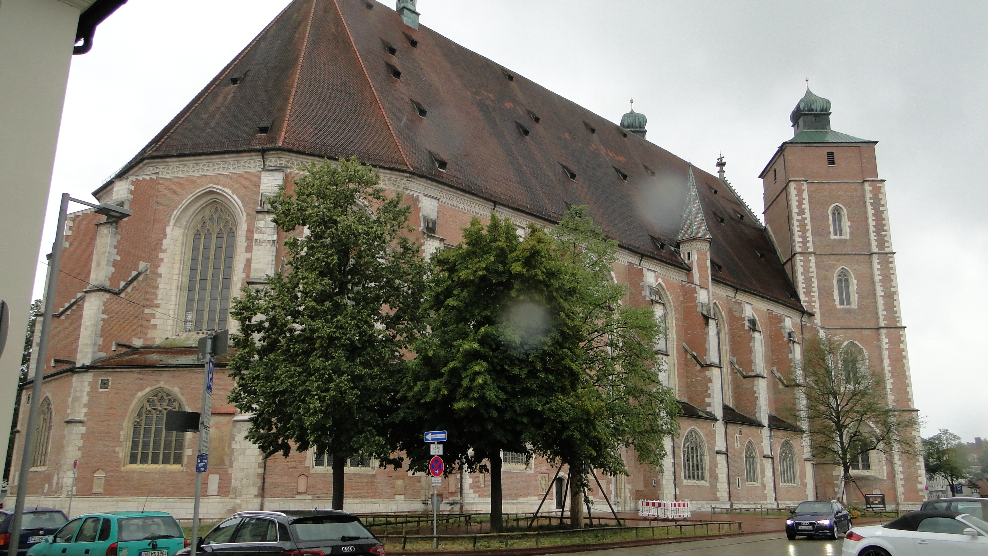 External side of the apsis of the Church of Our Lady at Ingolstadt (Germany)